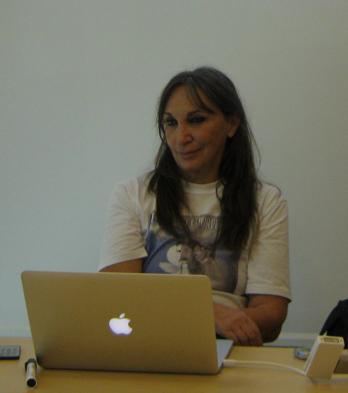 Anya Petrovic, Master of Tesla Metamorphosys, during Tesla Metamorphosys III seminar, at Hotel M, Ljubljana, 2016, May 22